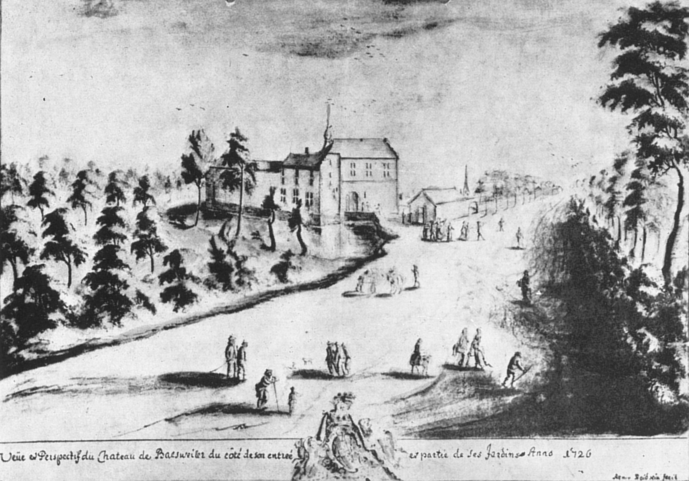 Pen drawing of the castle of Baesweiler, Germany